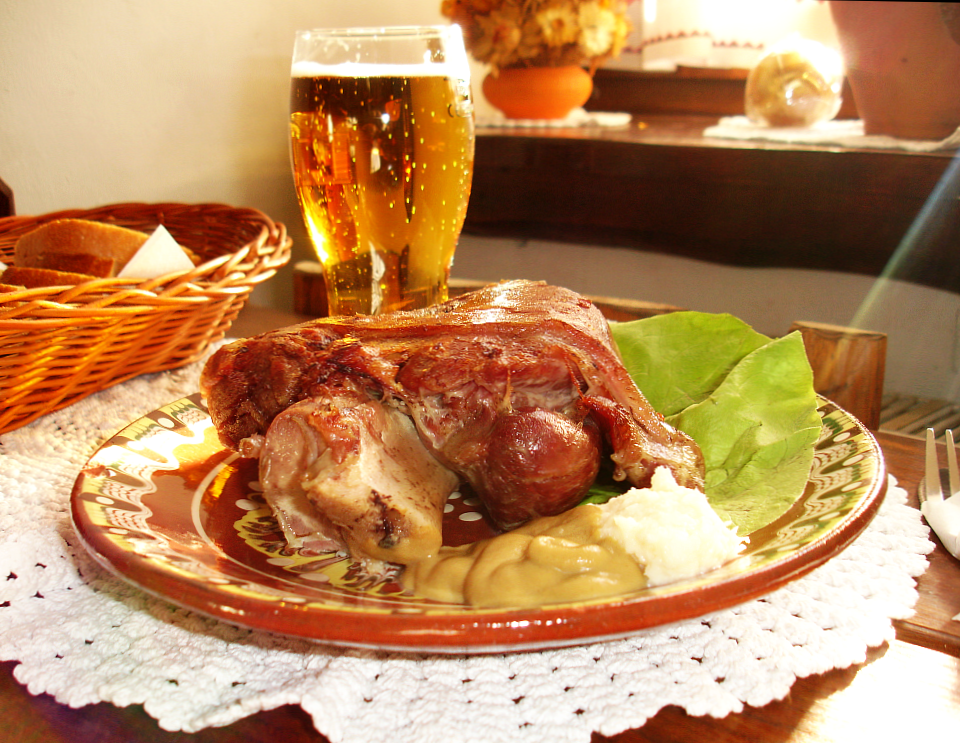 Eisbein, Sanok